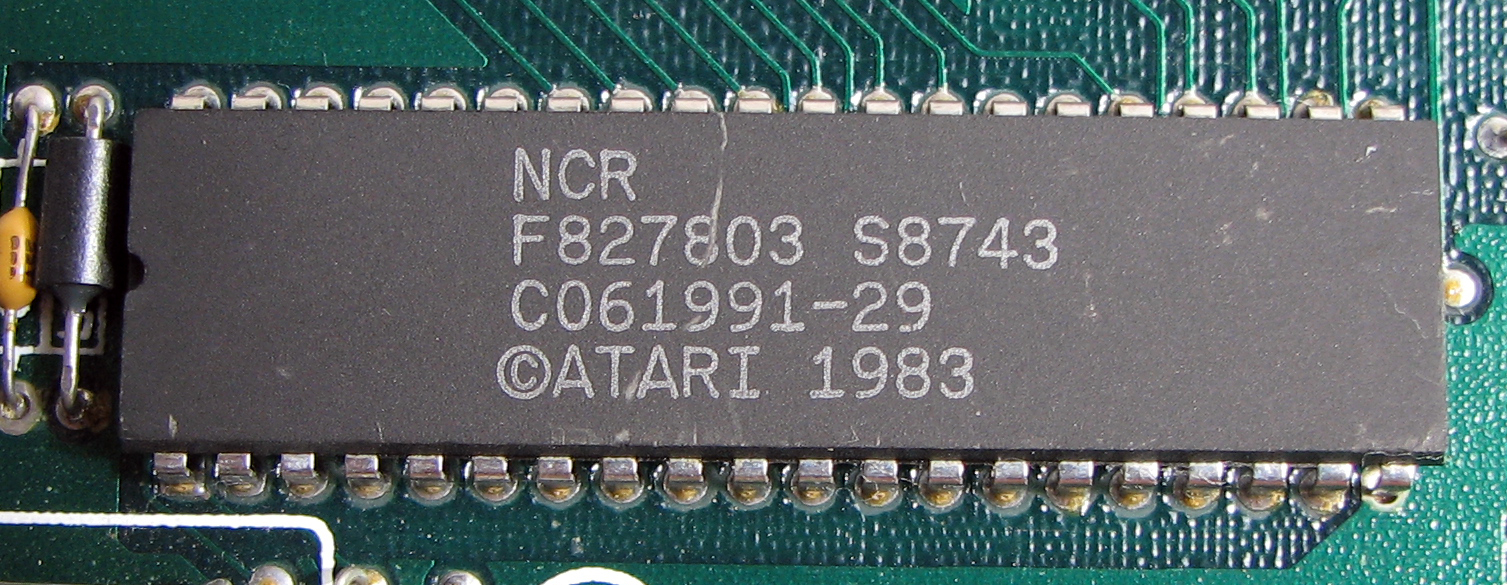 a FREDDIE chip mounted on an Atari 130XE motherboard. Manufctured by NCR.